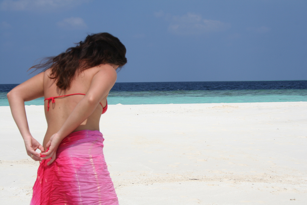 Girl with pareo. Tahitian: pāreu